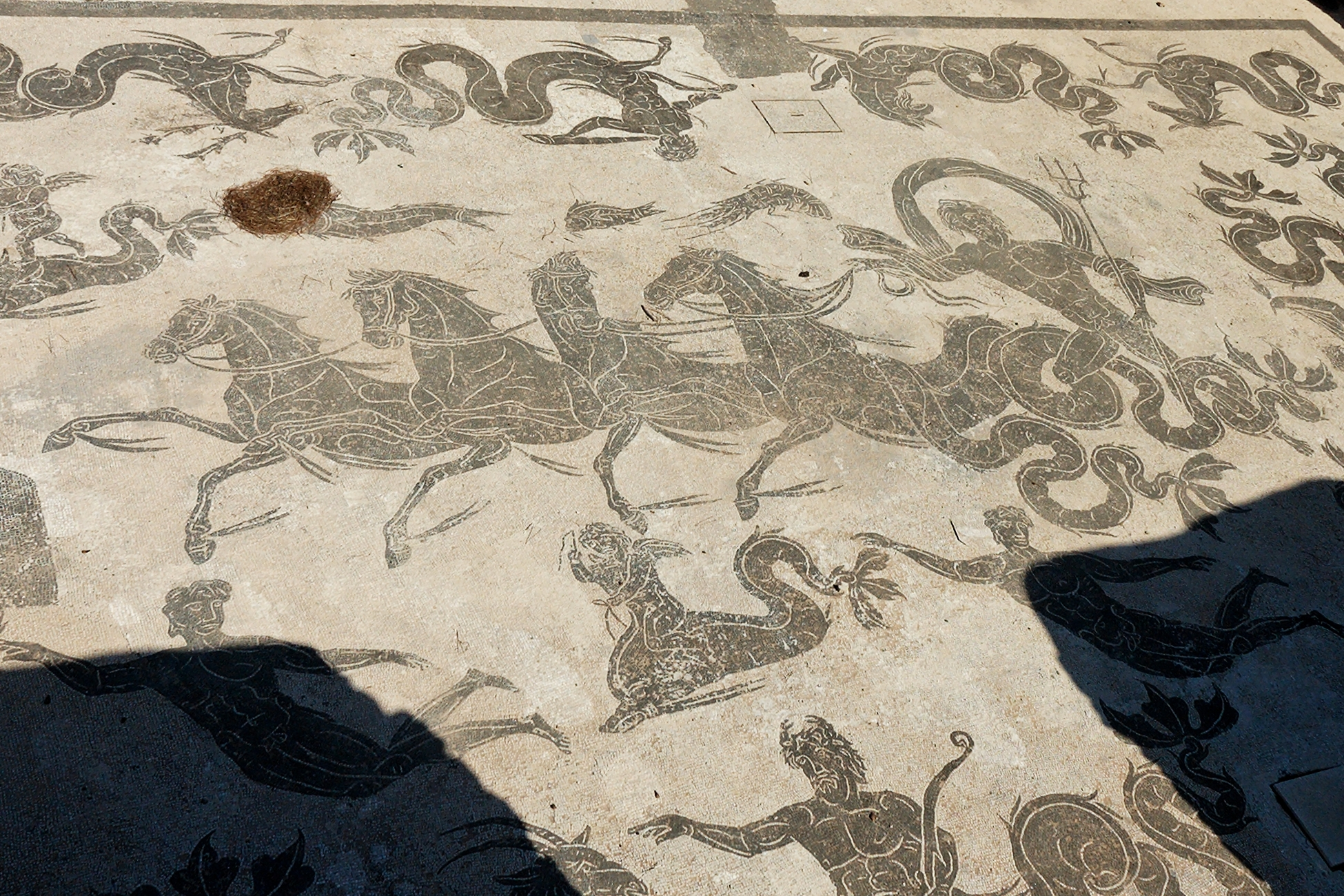 Poseidon in a chariot drawn by hippocampi, surrounded with dolphins, tritons, and Nereids on sea-monsters. Room 4 of the Baths of Neptune, Ostia Antica, Latium, Italy.